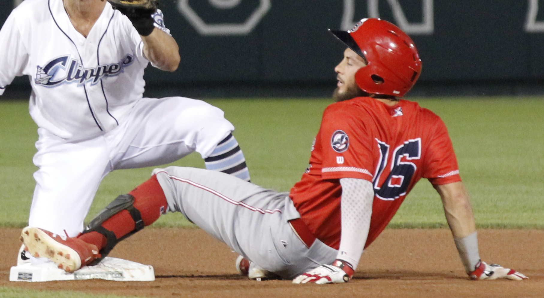 Blake Trahan of the Louisville Bats slides into second base, defended by Drew Maggi of the Columbus Clippers during a 2018 game at Huntington Park in Columbus, Ohio